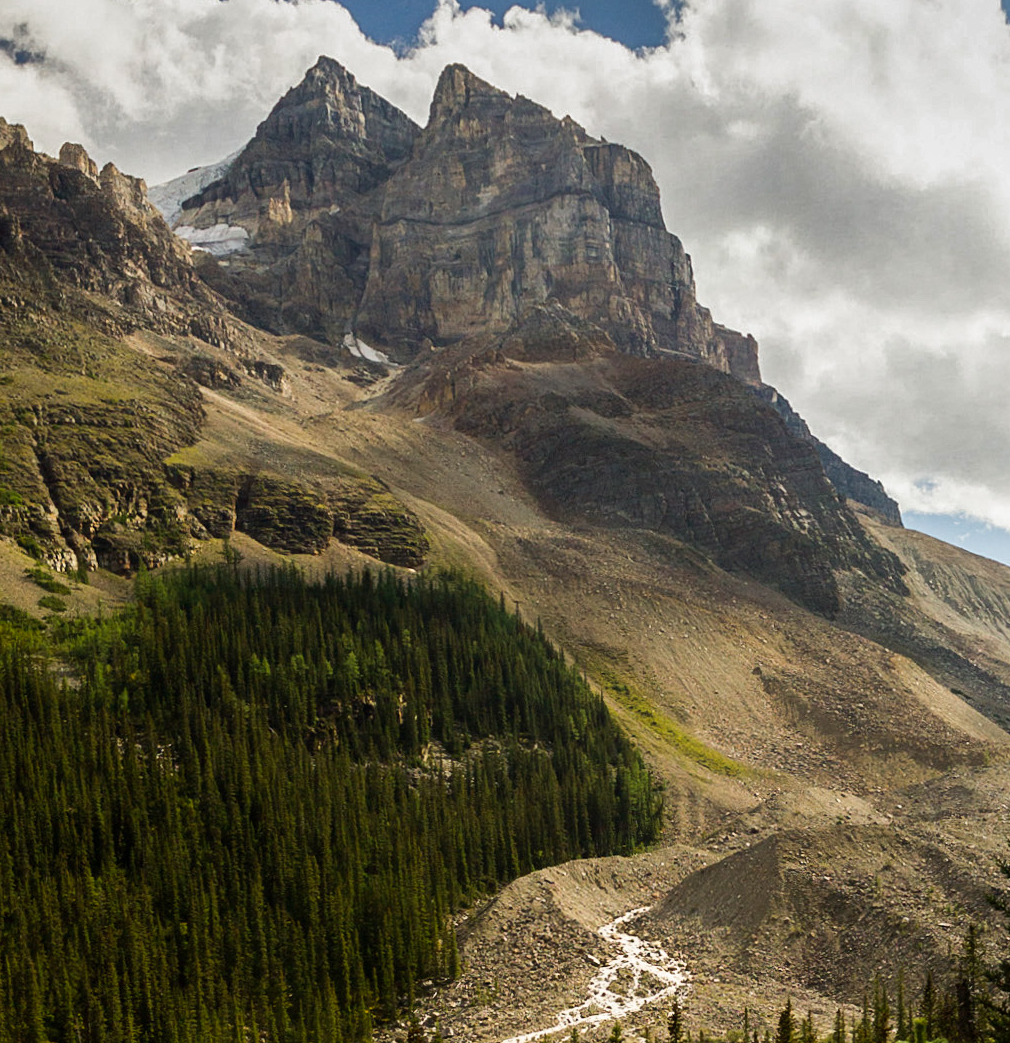 Mount Aberdeen seen from the Plain of the Six Glaciers near Lake Louise, Alberta, Canada